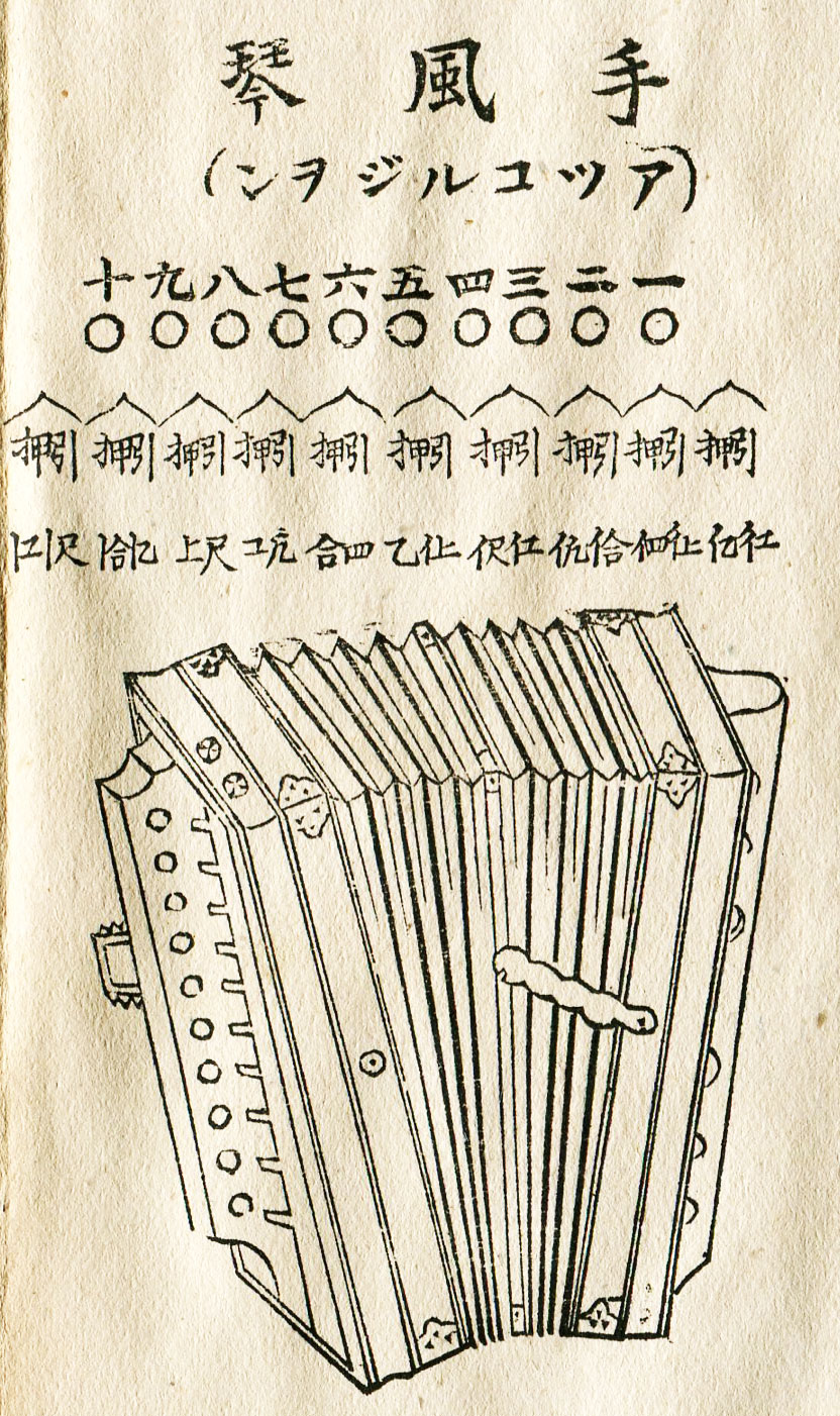 From the book entitled "Gekkin Zakkyoku Shingaku Sokusei Jizai", published in 1897, Tokyo